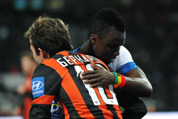 Bernard and Dominic Adiyiah, Shakhtar Donetsk-Arsenal Kiev (7-0) 5th October 2013, Ukrainian Premier League